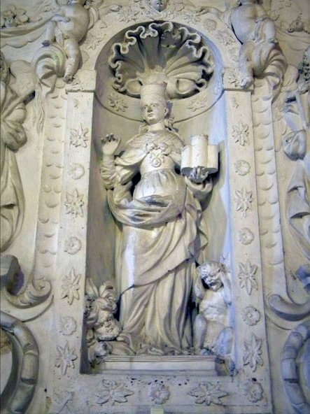 Stucco statue of S. Agrippina in the church of S. Maria della Catena of Militello in Val di Catania.